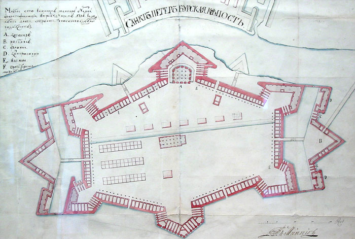 Plan of Peter & Paul Fortress by Burkhard Christoph von Münnich (with him autograph). Russian State Archive of Ancient Acts (in Moscow).